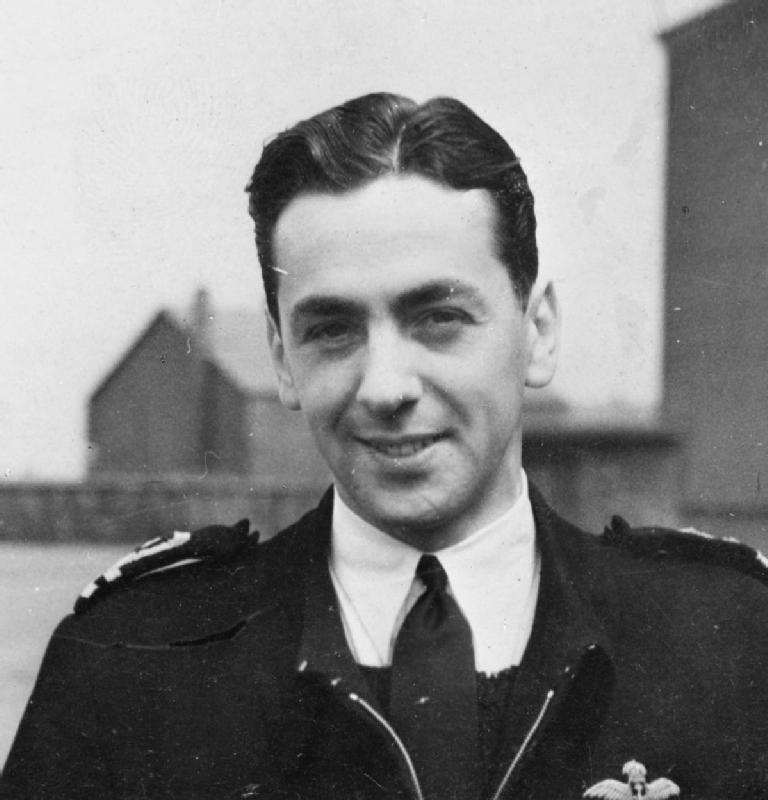 Naval Pilot Who Landed Jet Plane on Carrier. On 3 December 1945, Lieut Cdr Eric Melrose Brown, MBE, DSC, RNVR, Chief Naval Test Pilot, Landed a De Havilland Sea Vampire Jet Aircraft on the Flight Deck of the British Aircraft Carrier HMS Ocean. Lieutenant Commander E M Brown.